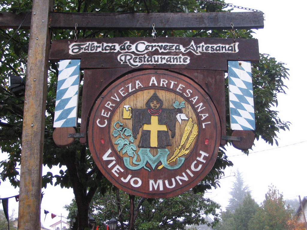 Sign of the "Viejo Munich" beer factory and restaurant at Villa General Belgrano, Córdoba, Argentina.